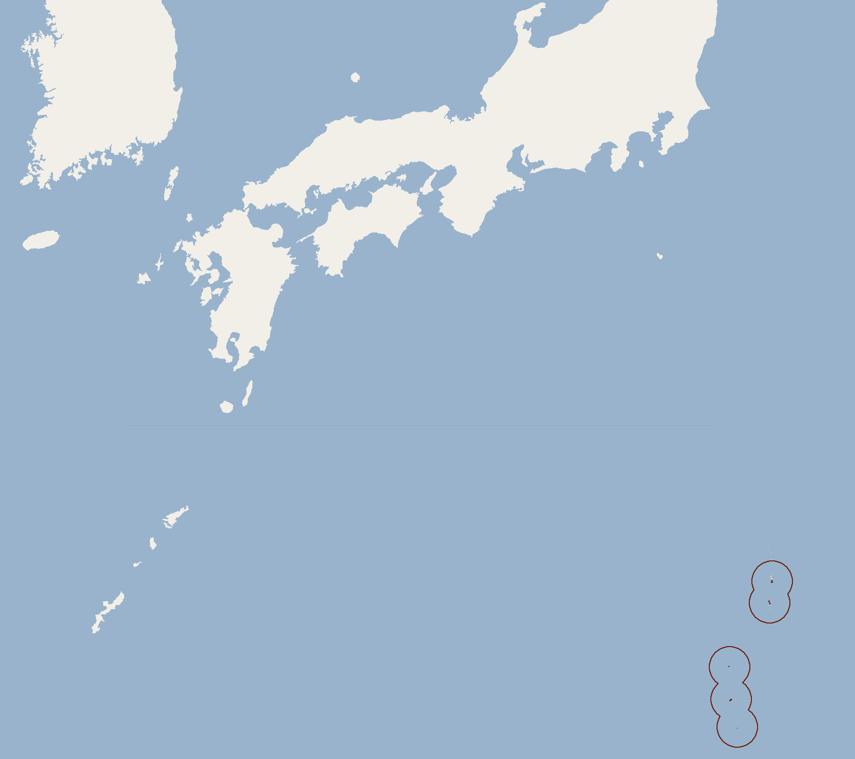 Geographical distribution of Pteropus pselaphon according to Museum specimens